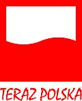 The "Poland: Now" Emblem of the Polish Promotional Programme ( (